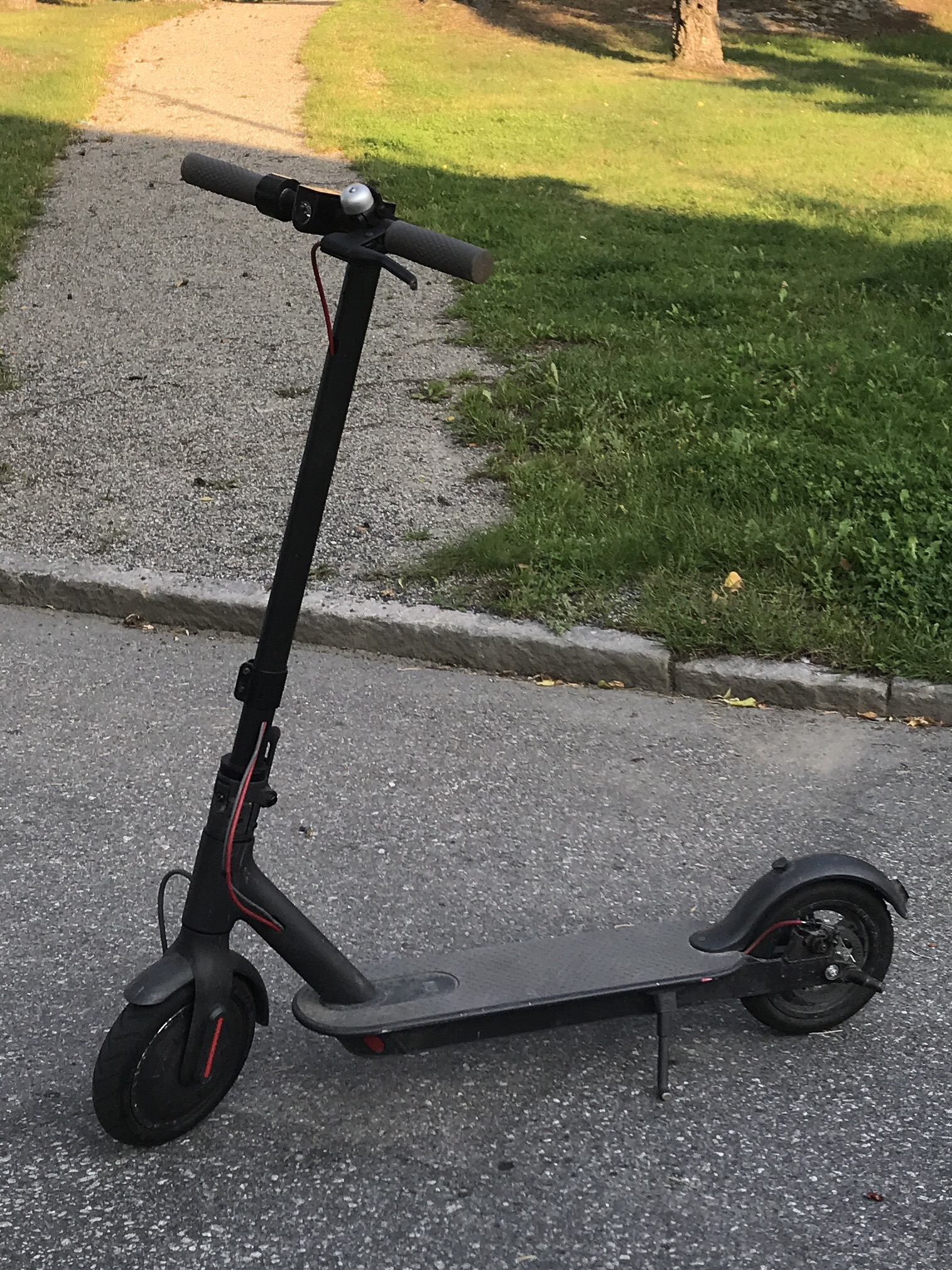 A picture of a black Xiaomi M365 scooter.